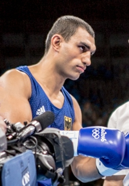 Day 3 at the 2016 Summer Olympics. Boxing 69 kg. Round of 32, Gabriel Maestre (Venezuela) vs Arajik Marutjan (Germany)